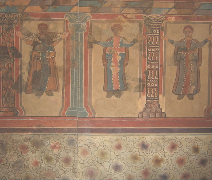 Modern restauration of the fresco from the Roman Villa at Lullingstone, now at the British Museum, London.